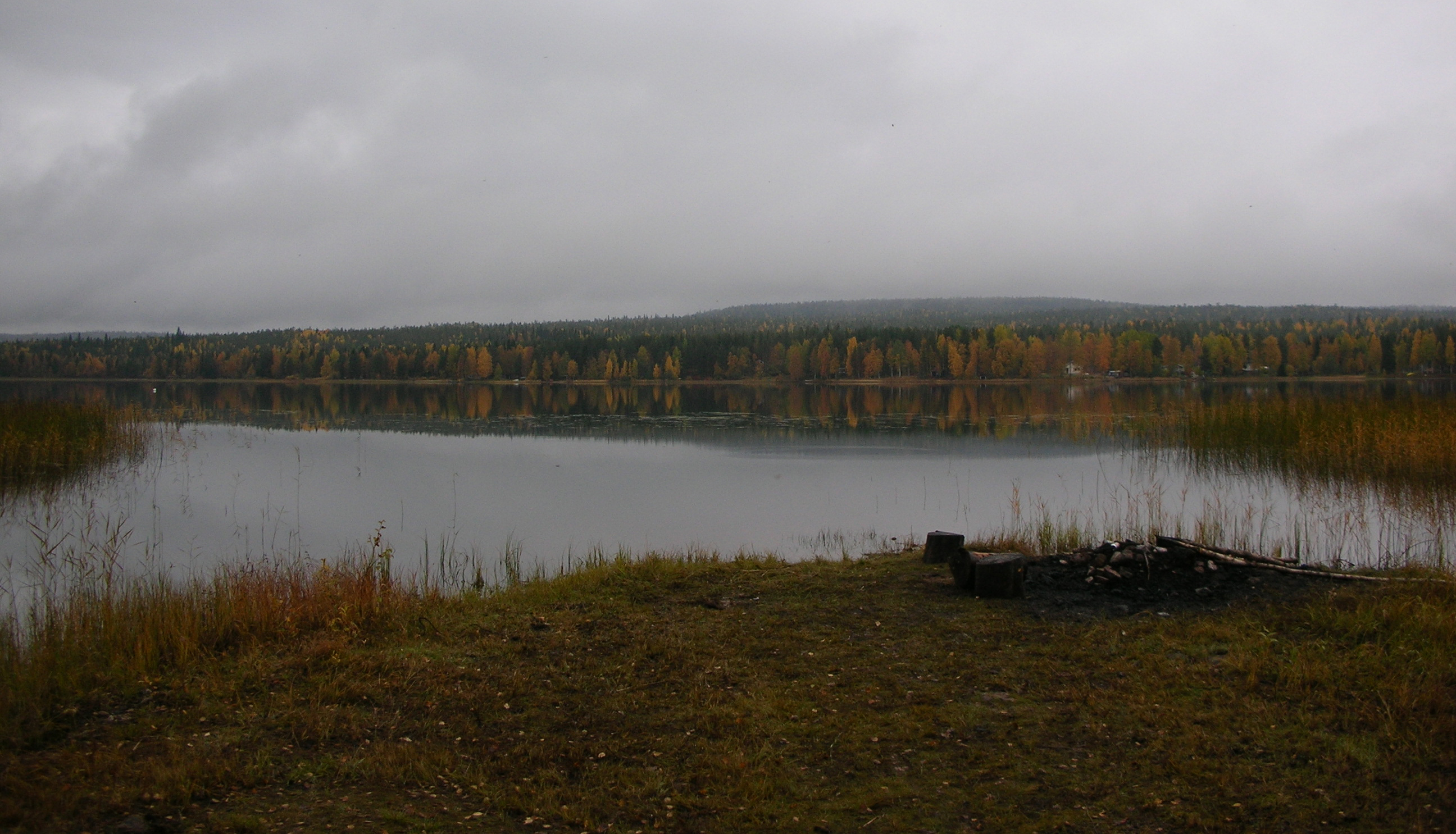 Lake Louejärvi in Rovaniemi, Finland